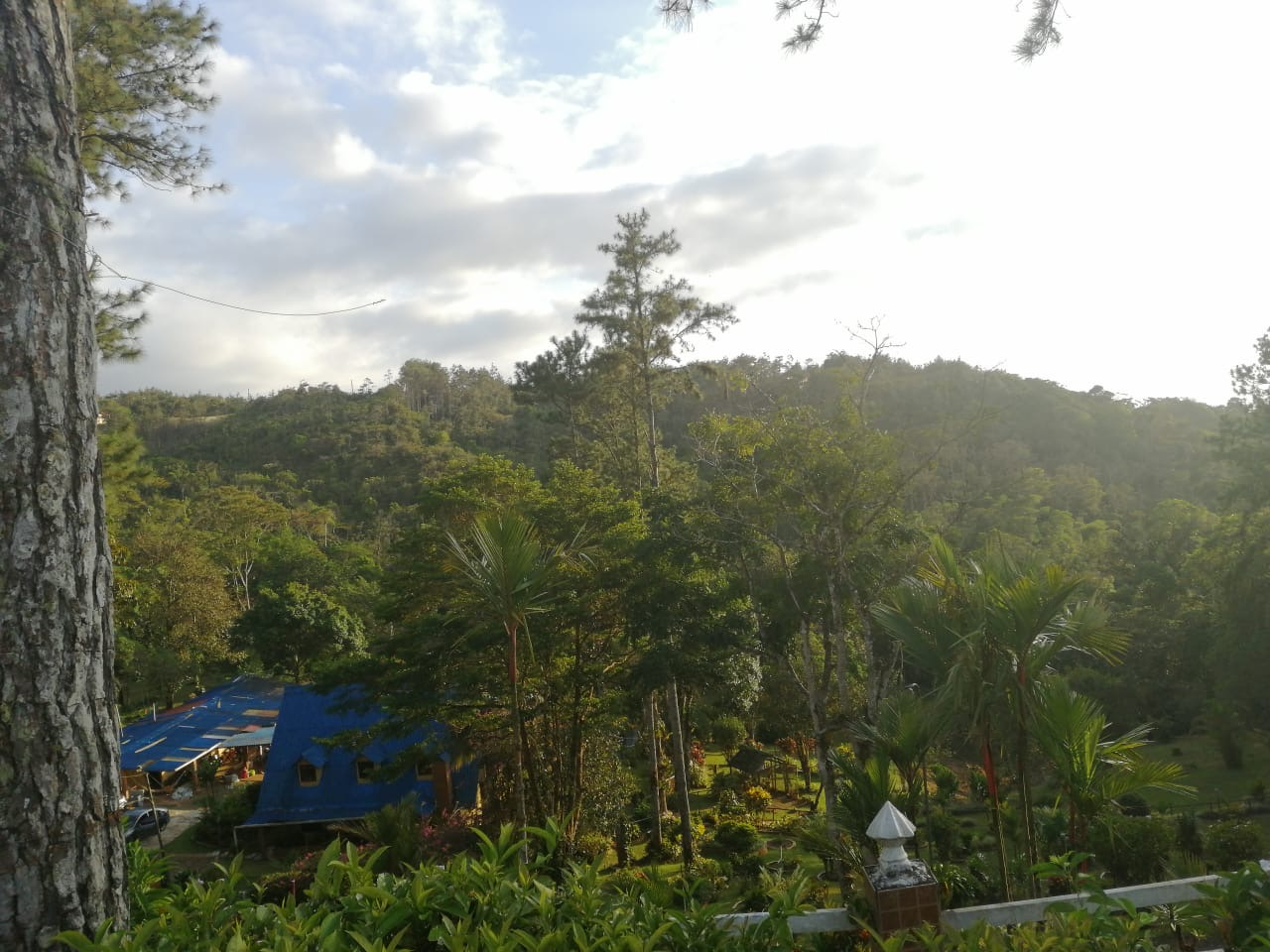 View of the landscape the "Hacienda Mi jardín, tu jardín".